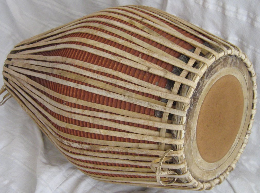 Bass of a Khol, bangla drum from India